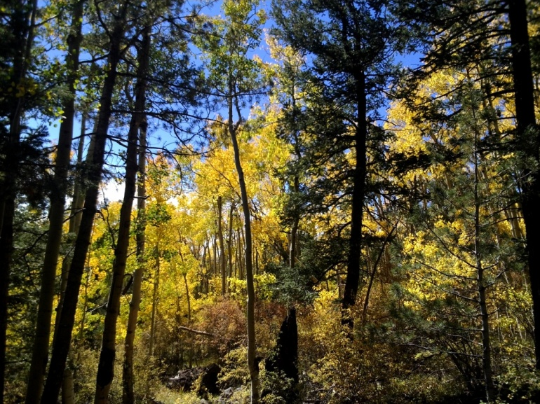 A stand of aspen (Populus tremuloides) within the Magdalena Mountains.